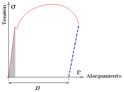 DUCTILIDAD